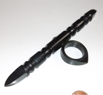 I made this myself. It is more like the dokko type version